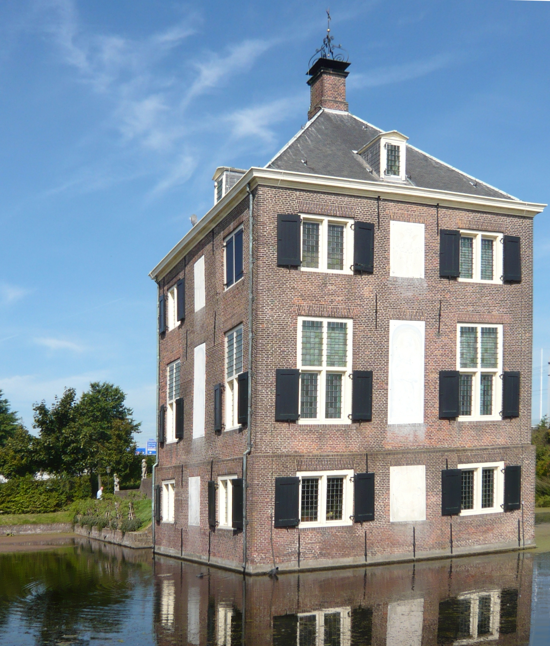 Hofwijck, from the west. Behind the camera is the trekvaart where even today barge traffic travels between Amsterdam and Rotterdam via inland waterways. Behind Hofwijck the flyover for the train and highway Route signs can be seen.